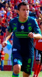 Santos player Juan Pablo Rodríguez